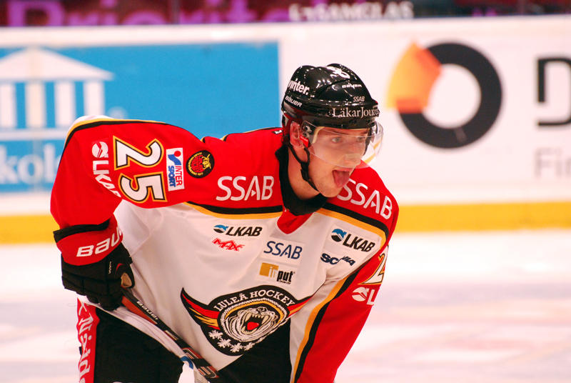 Swedish ice hockey forward Anton Hedman of Luleå HF during a game against AIK in October 2012